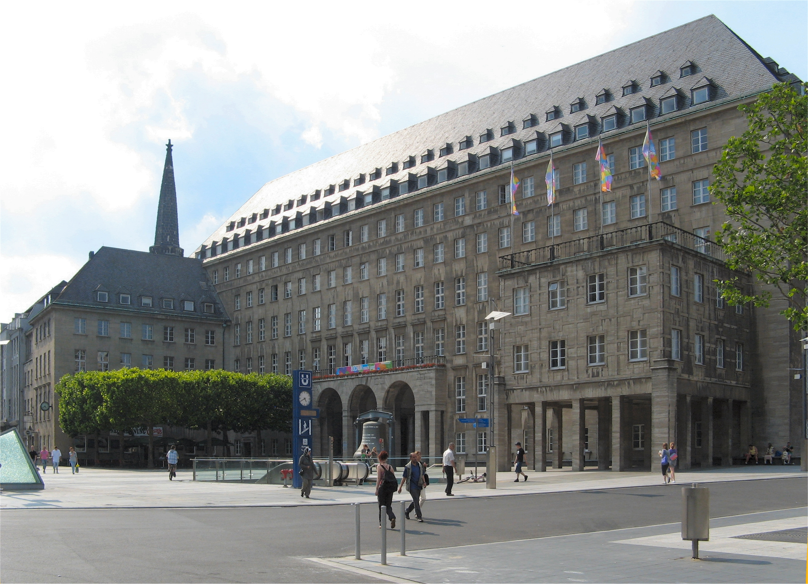 Bochum-downtown, City Hall Am 20. Mai 1931 wurde das Rathaus eröffnet. Die Pläne stammen von dem Darmstädter Architekten Professor Karl Roth. Die Ausstattung mit wertvollen Materialien wie Granit und Mamor, Bronze und Kupfer ist etwas Besonderes. The date of dedication was the 20th of May 1931. The building was planned by Professor Karl Roth from Darmstadt. The interior consists of precious material like granite, marble, bronze and copper.